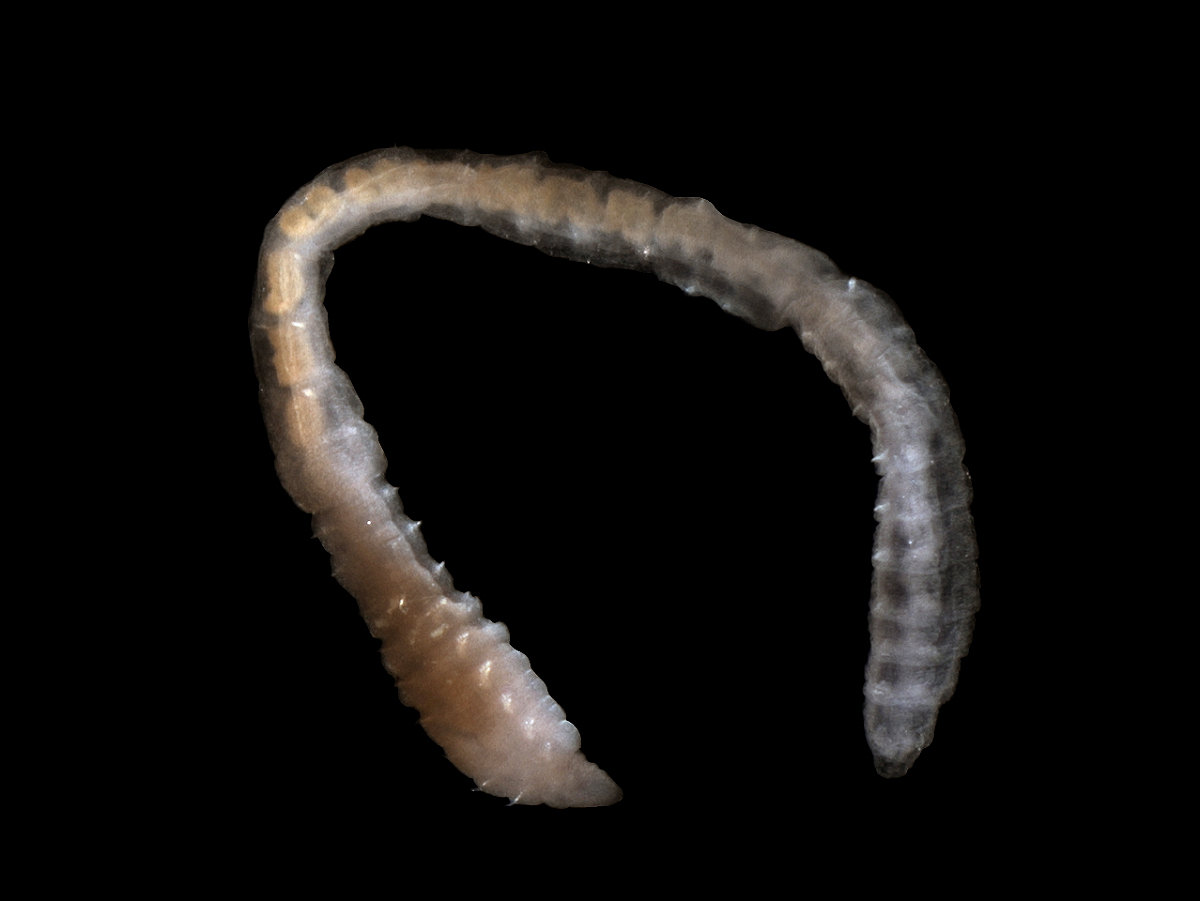 Gallery worm from the Belgian continental shelf. Lab image. Length : ~9 mm.